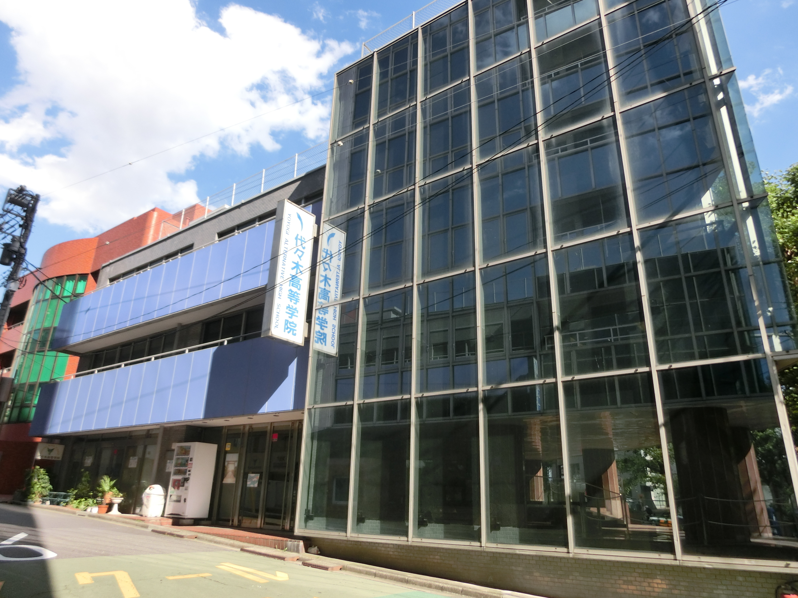 Yoyogi Koto Gakuin